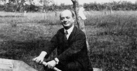 Tristan Derème (1889-1941), French poet writer and politician.